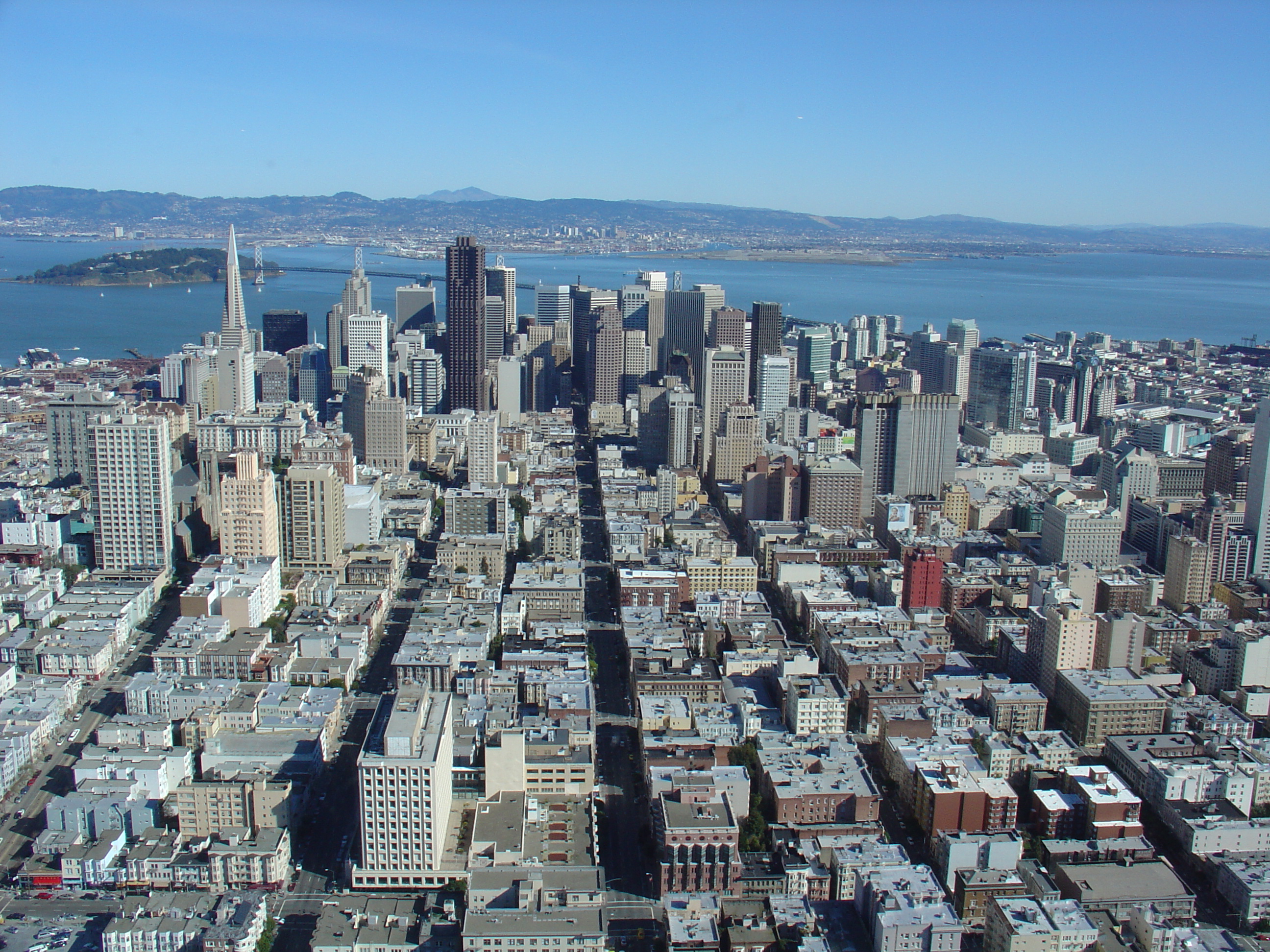 San Francisco downtown seen from helicopter